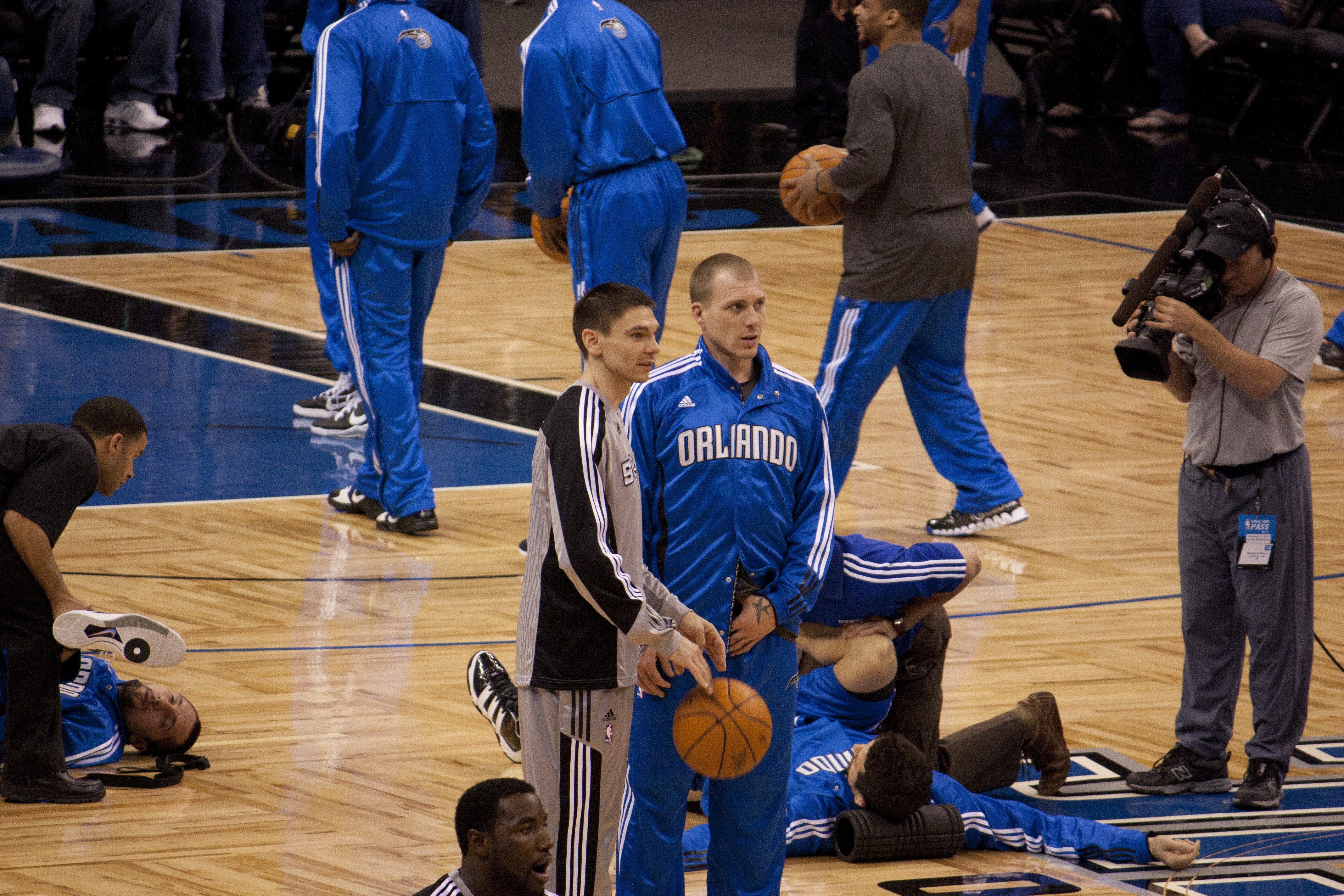 Chris Quinn of the San Antonio Spurs with Jason Williams of Orlando Magic at midcourt before a game in December 2010.